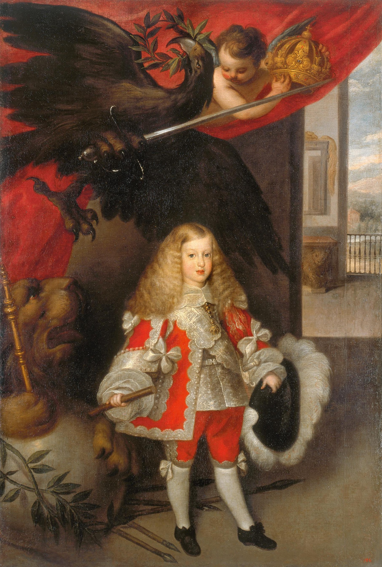 Portrait of Charles II as a Child